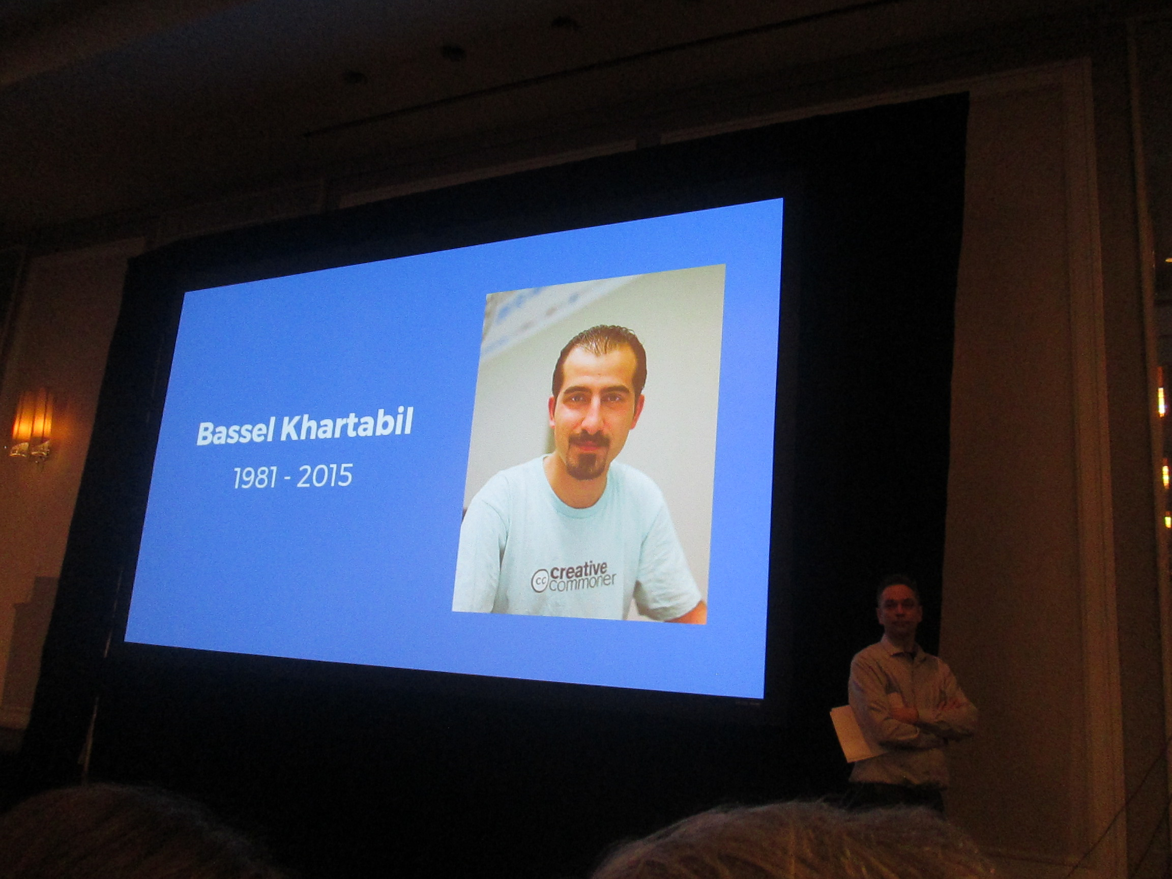 Remembering Bassel at Wikimania 2017